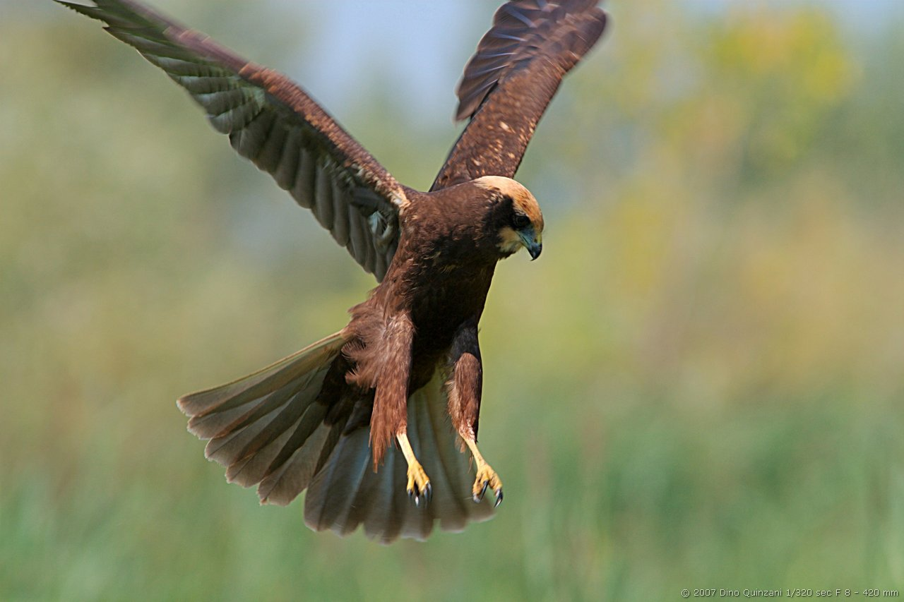 Western marsh Harrier (Circus aruginosus) juvenile, Torrile